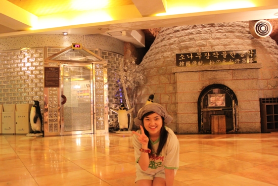 Jjimjilbang is a unique Korean experience: from children to the elderly, they all come together to talk and relax. I tried out the “sheep hair" I saw in K-dramas.